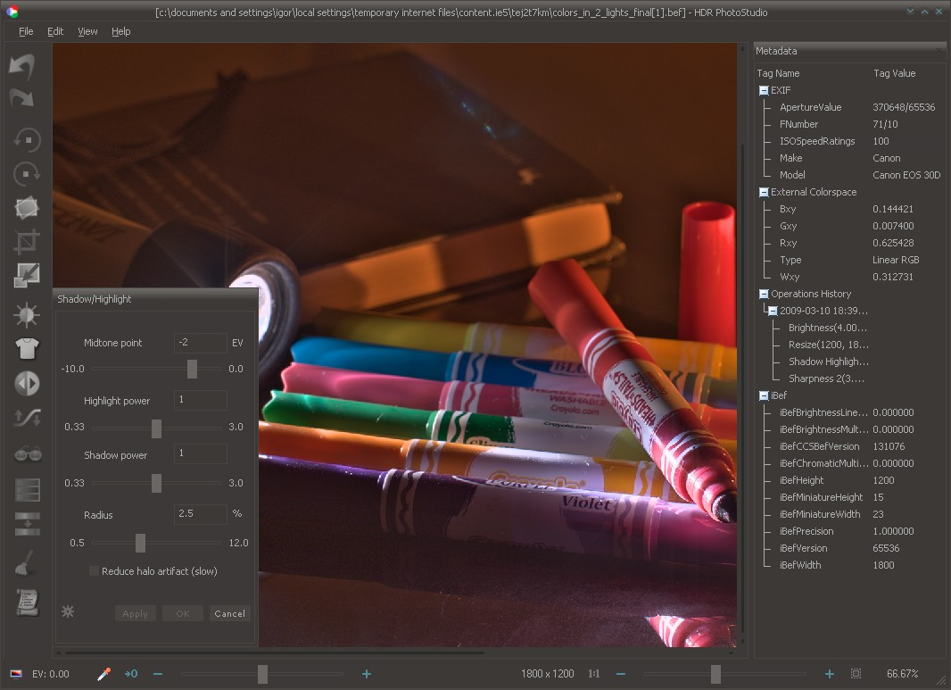 HDR PhotoStudio screen shot